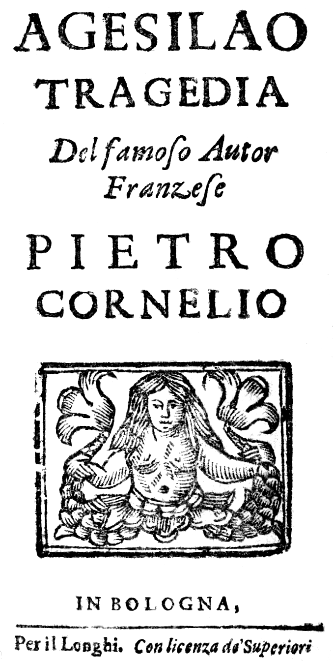 Gaetano Andreozzi - Agesilao - titlepage of the libretto - Venice 1787